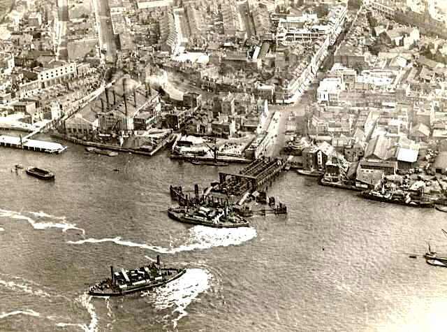 Aerial view of the Woolwich Free Ferry on the river Thames in South East London, ca 1925.